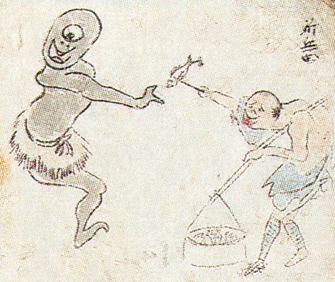 Yamachichi (山爺, a humanoid with a head like a large rock, with one eyeball and a constant smile) from the "Ehon atsumegusa" (絵本集艸, Japanese picture)